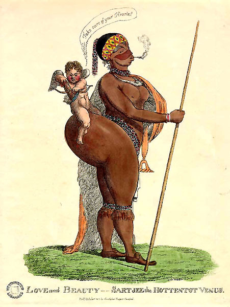 Illustration of Saartje Baartman